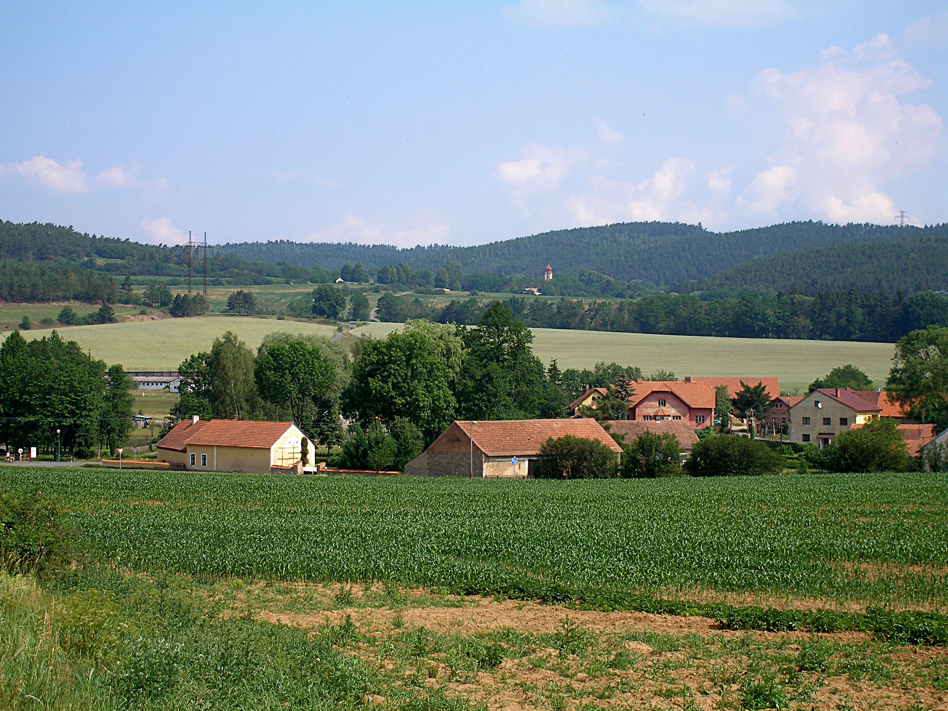 Drevníky (CZ, District Příbram) - village centre from the South